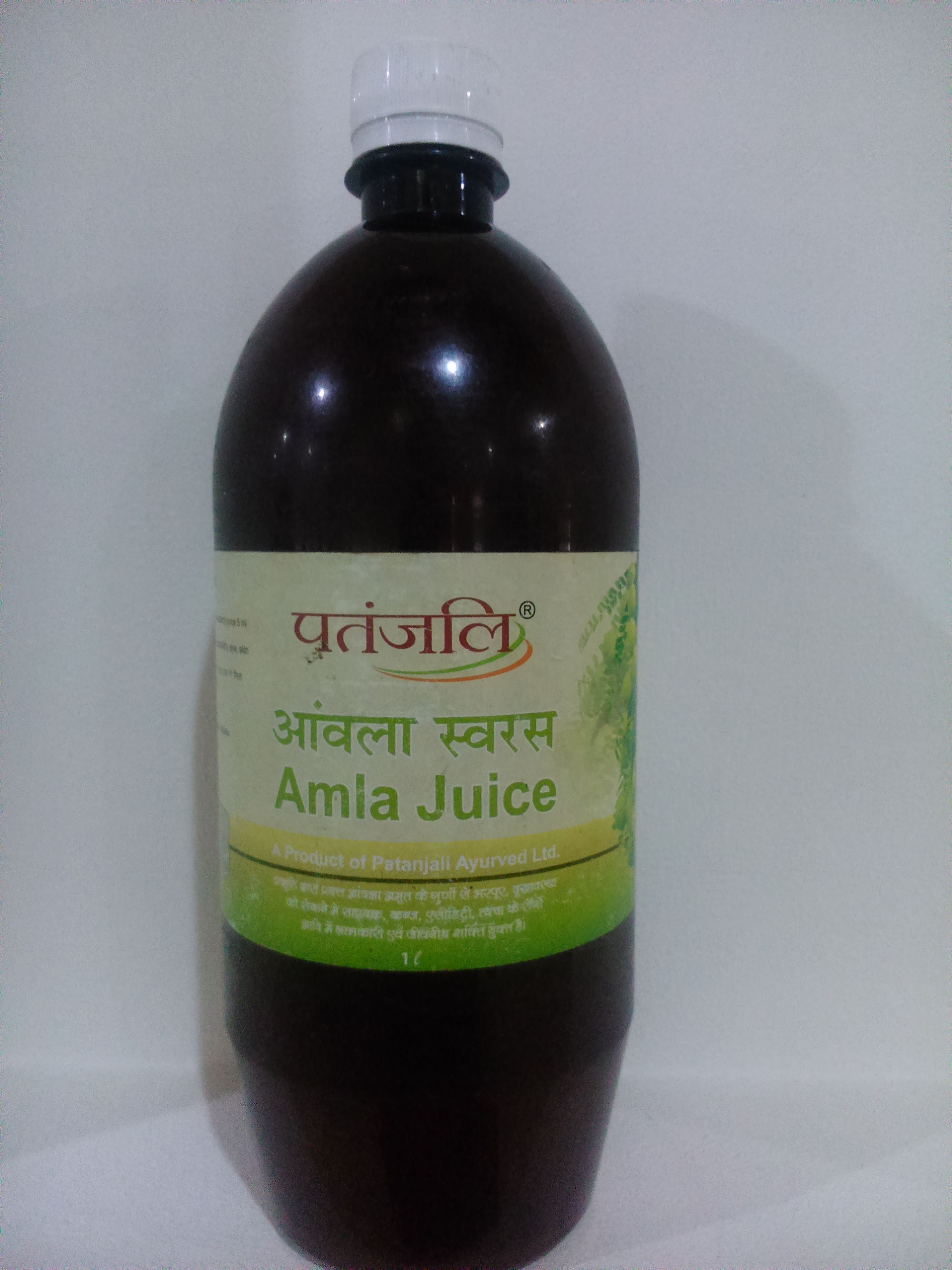 Patanjali Amla Juice